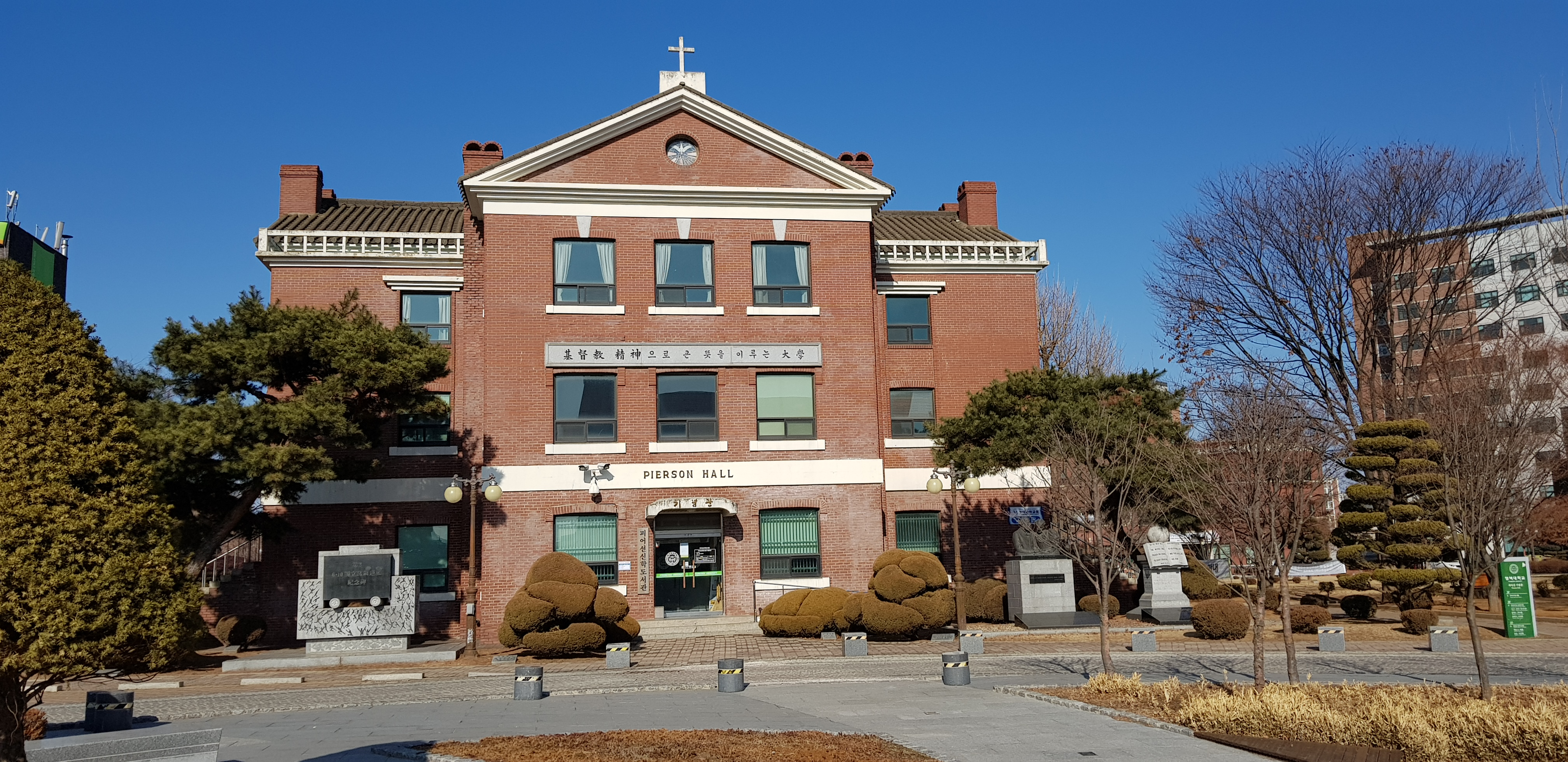 Pierson Hall